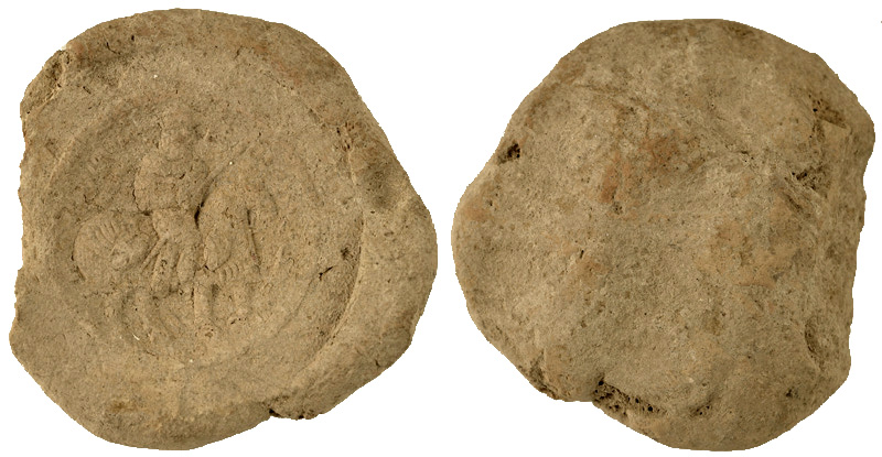 Rare 6th century Sasanian seal depicting the Sasanian spahbed Chihr-Burzen.